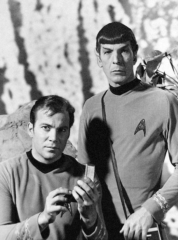 Photo of William Shatner as Kirk and Leonard Nimoy as Spock from the orignal "Star Trek" series used to promote the 1973 animated version.